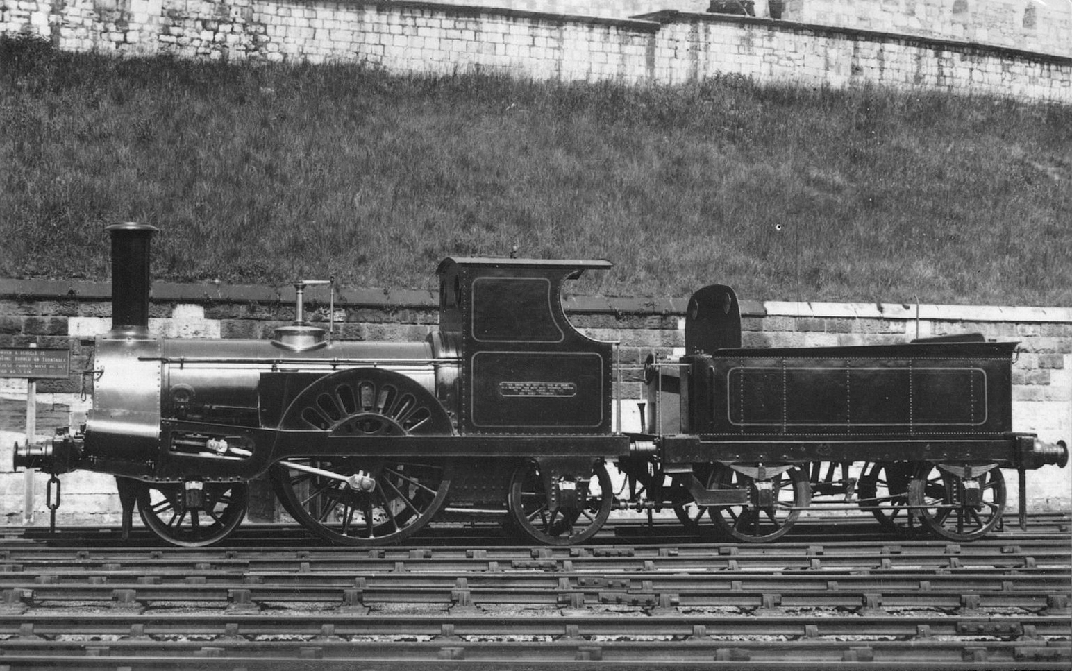 Photograph of LNWR engine 'Columbine'